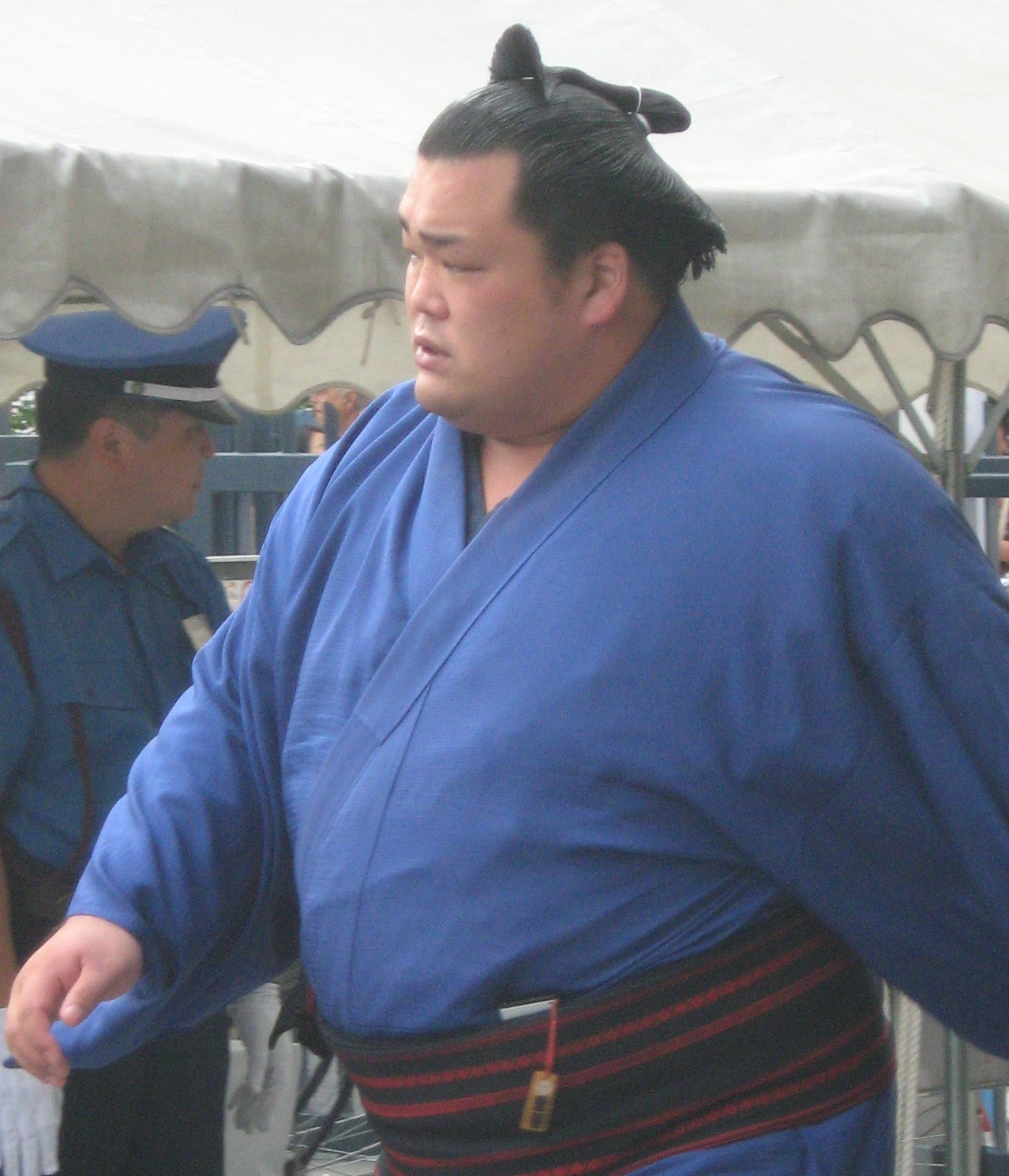 Picture taken at Sep 2008 tournament